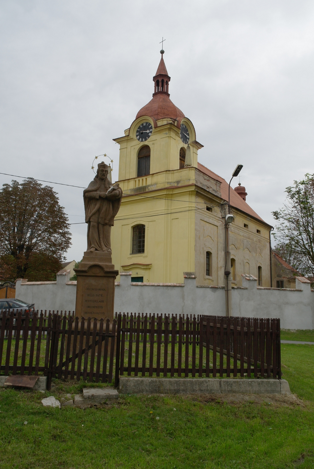 Church of St. Wenceslas and statue of St. John Nepomucene in Liblice